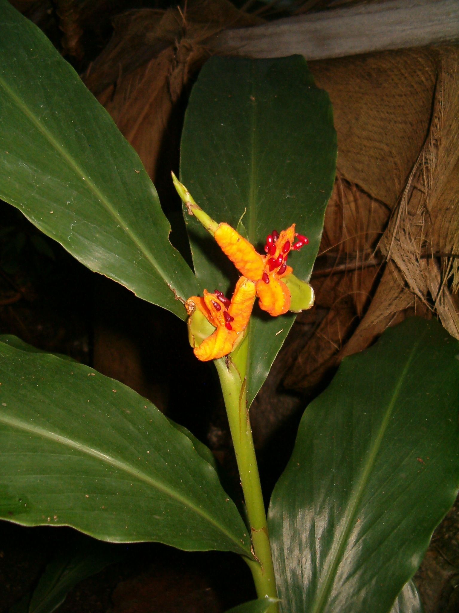 Location: Botanical Gardens Berlin Dahlem